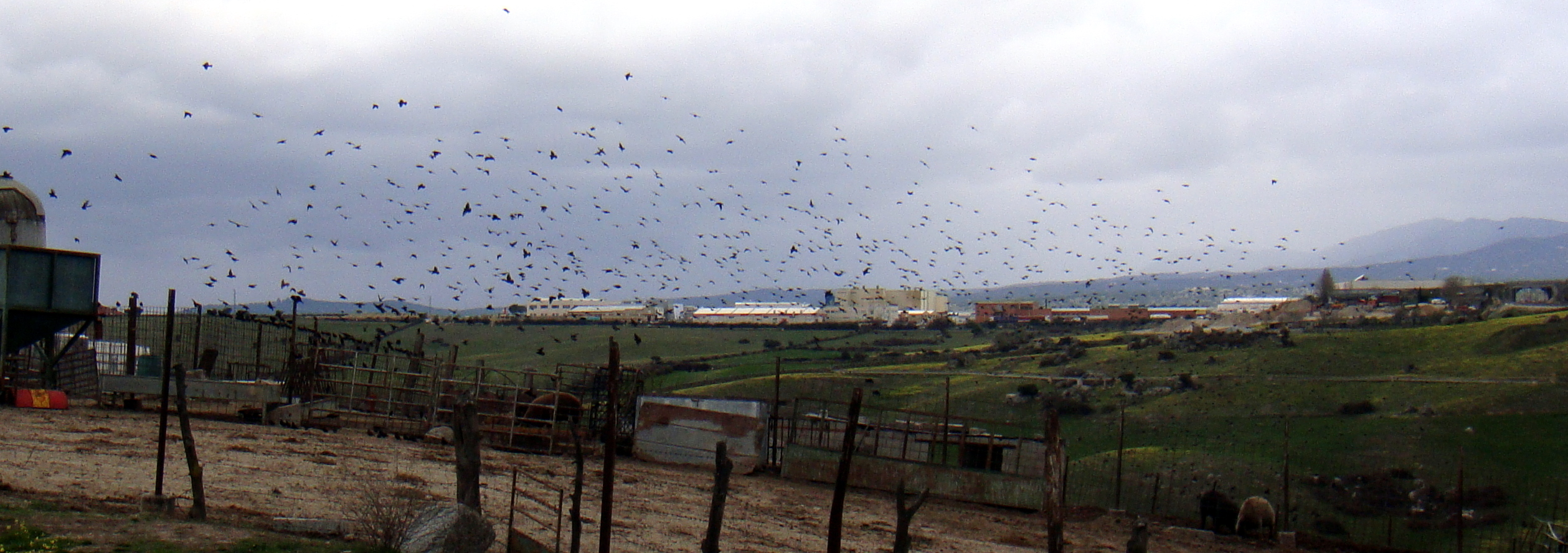 Flock of Sturnus unicolor in Colmenar Viejo, Madrid, Spain